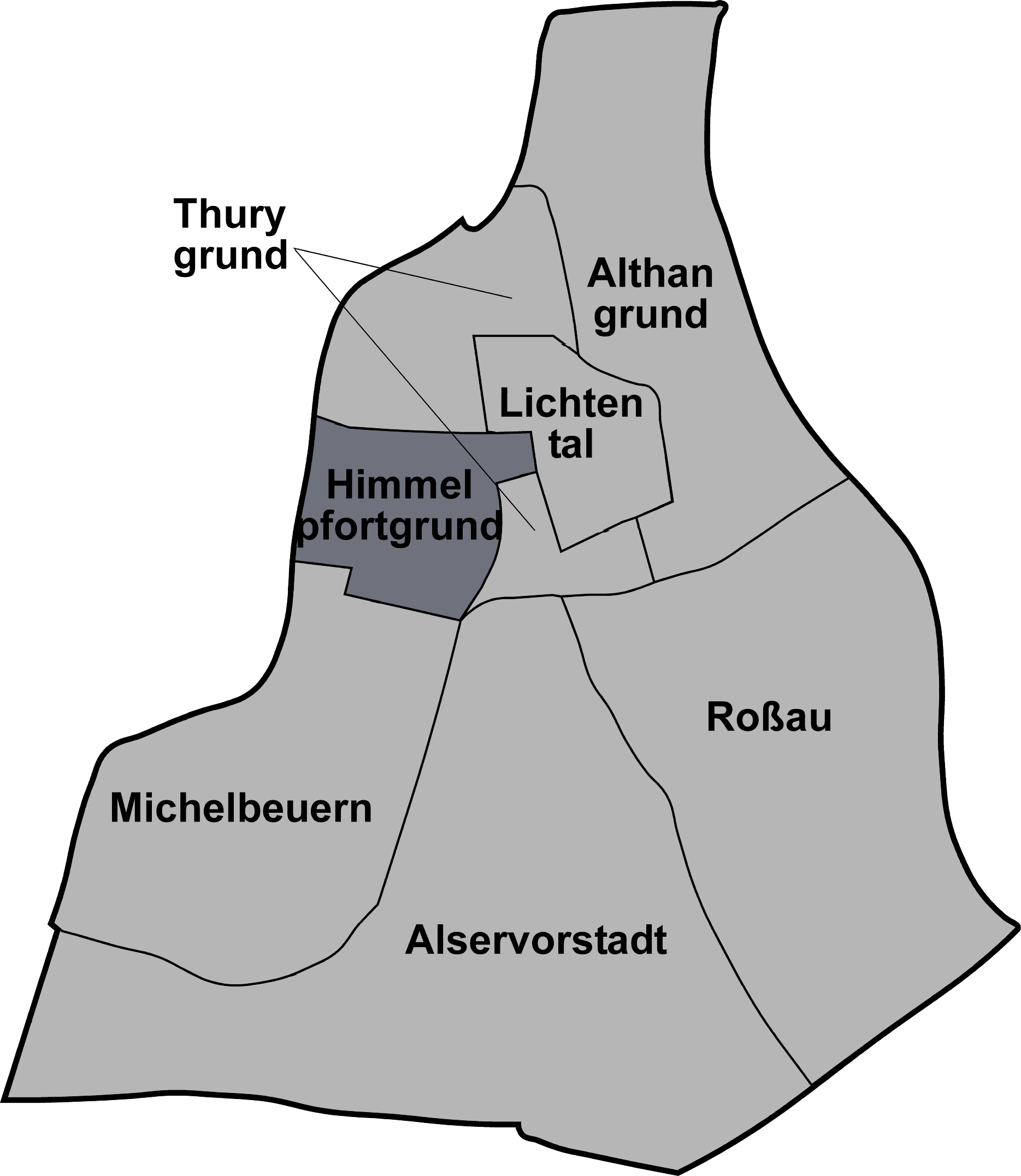 Map of Alsergrund, Himmelpfortgrund highlighted